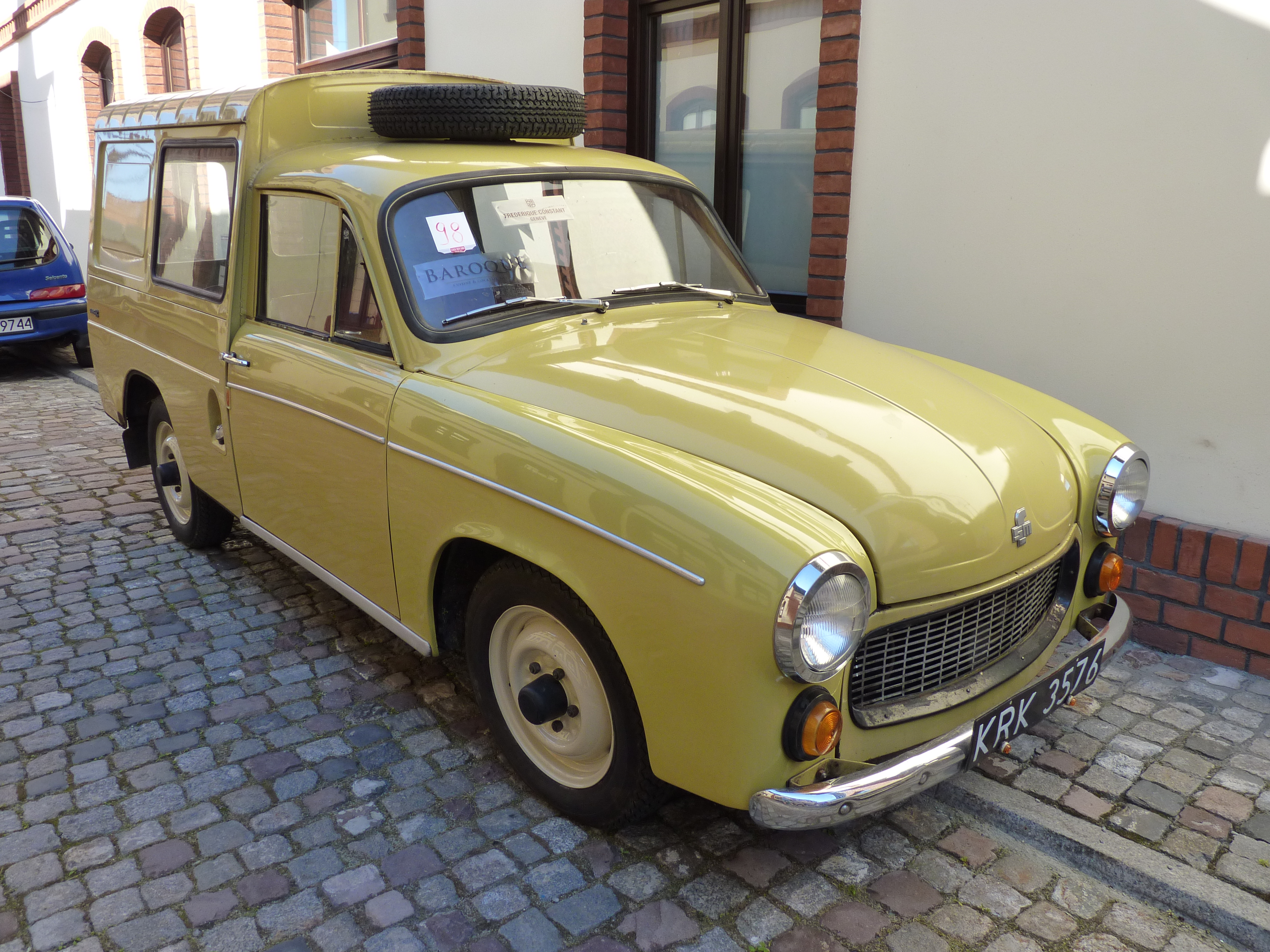 Classic Moto Show 2013